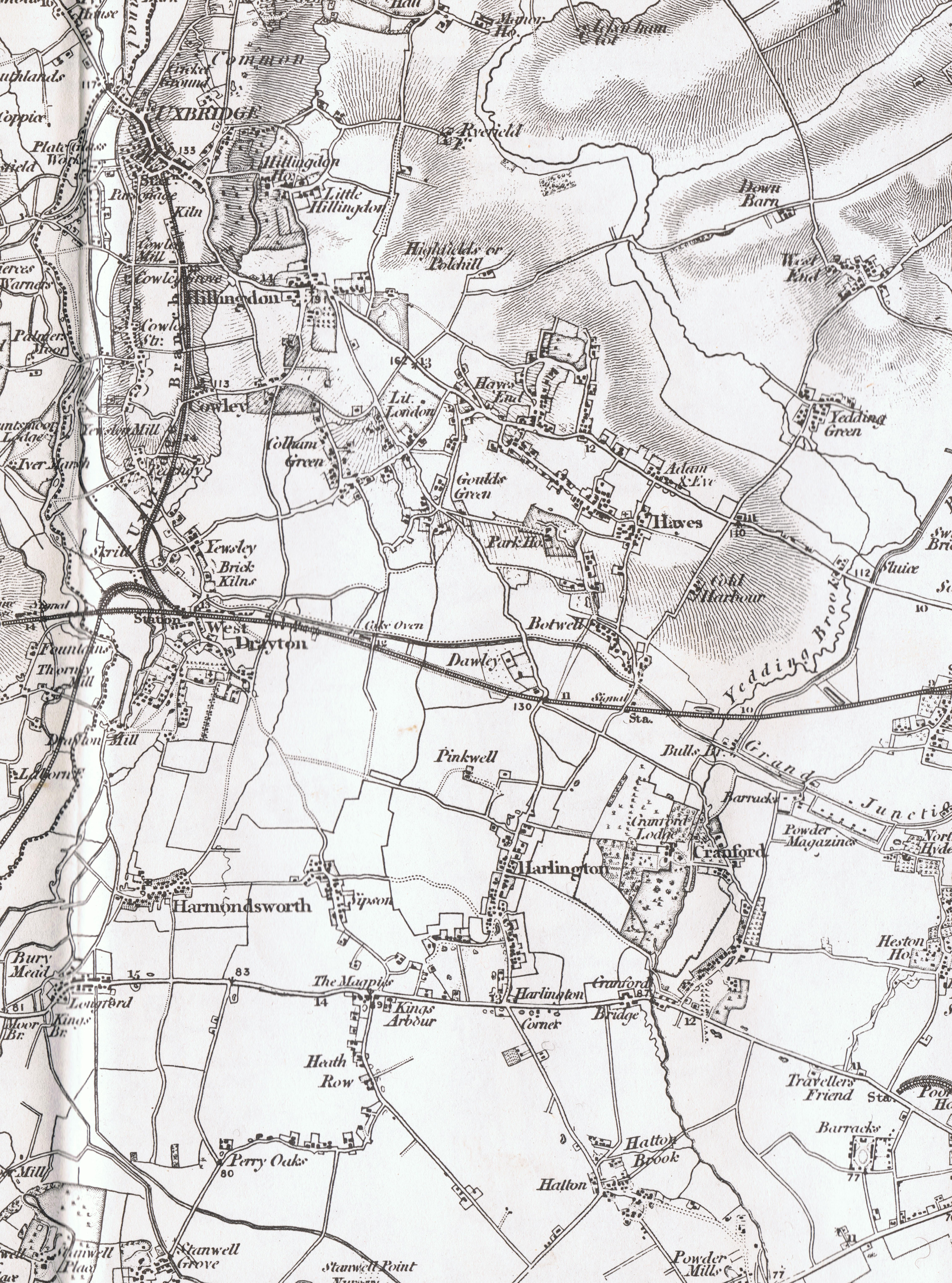 Scan (by me, R. de Salis) of map showing Harlington on Ordnance Survey map sheet 71, 1822-1890, with railway added 1891.(see cartographical notes by Dr. J B Harley, 1970).